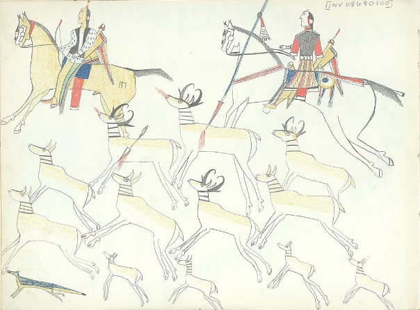 Anonymous ledger drawing of Kiowa Indians hunting pronghorn Antelope with a grey fox in the bottom left.